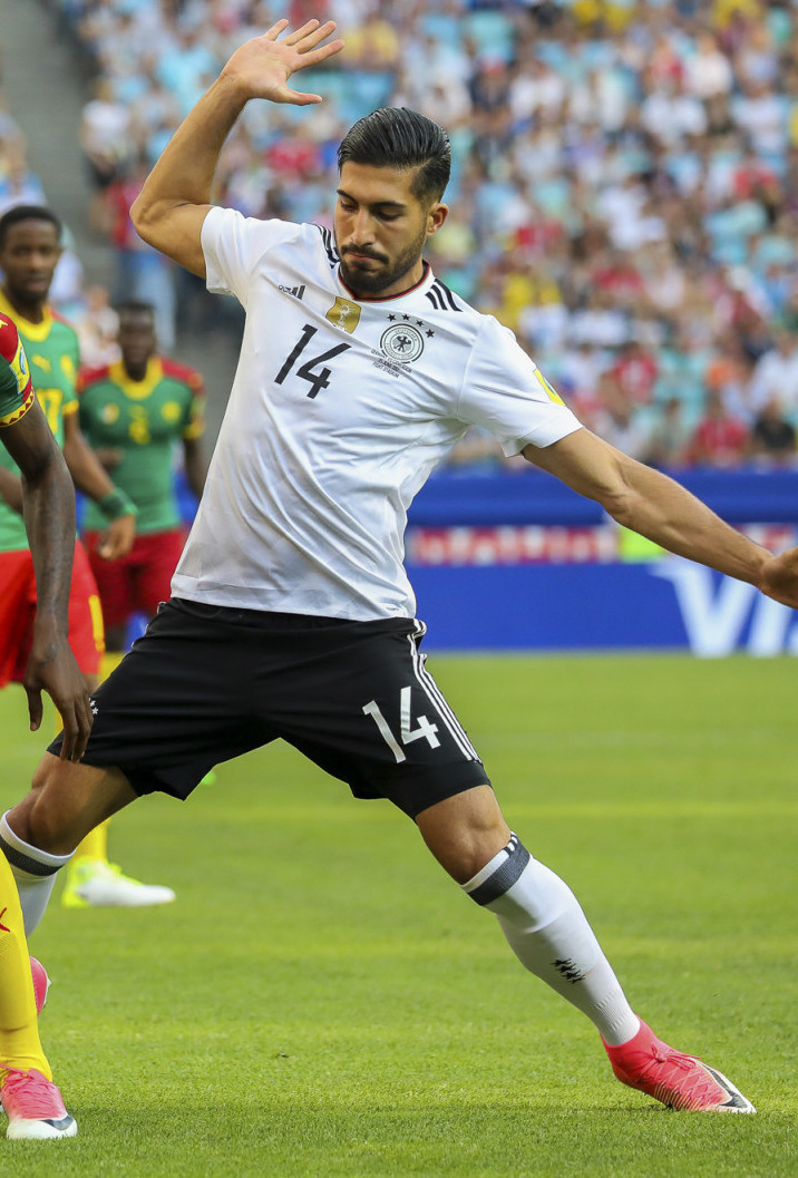 Germany VS. Cameroon 3 - 1, 25 June 2017